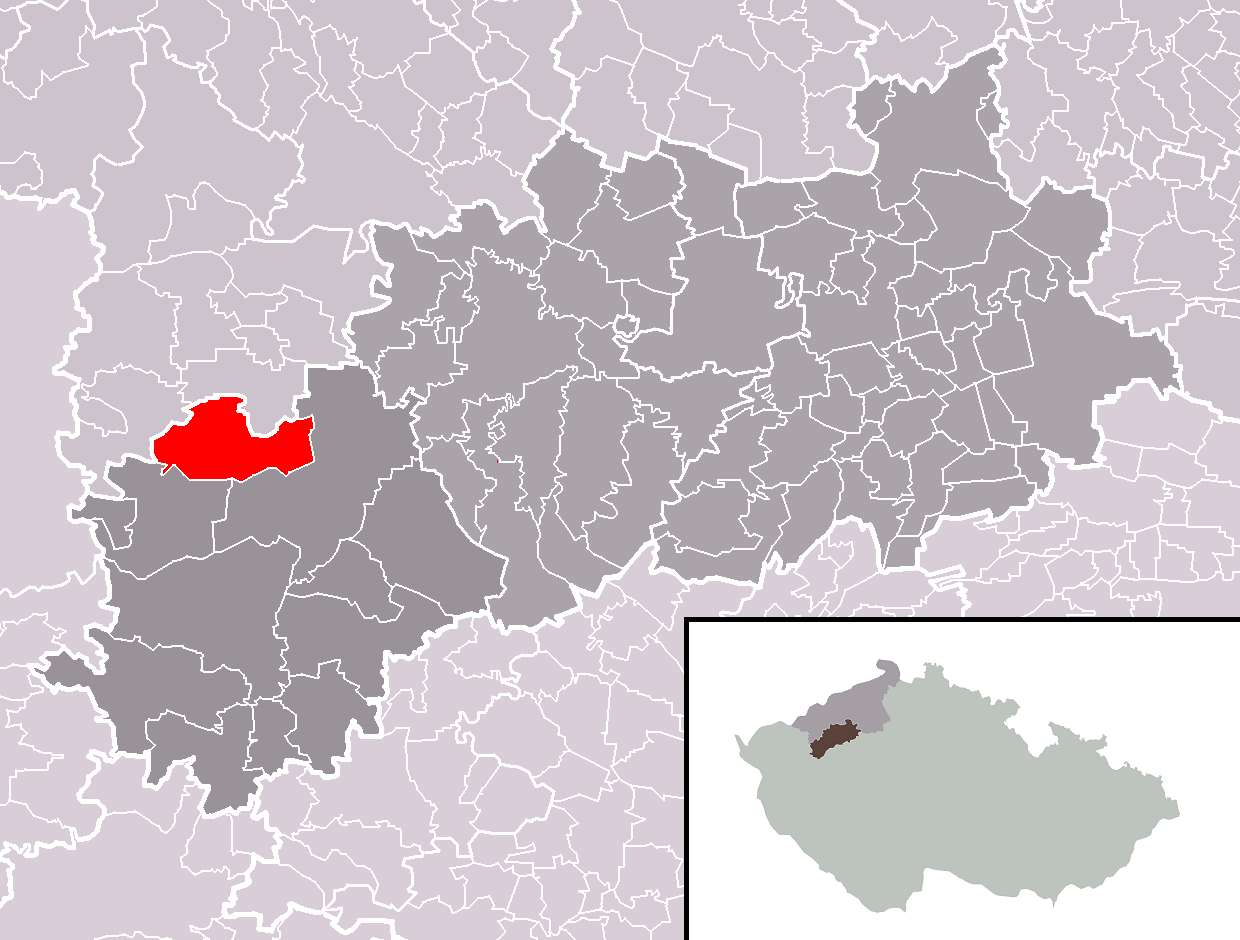 Location of Krásný Dvůr municipality within Louny District and administrative area of Podbořany as a Municipality with Extended Competence.